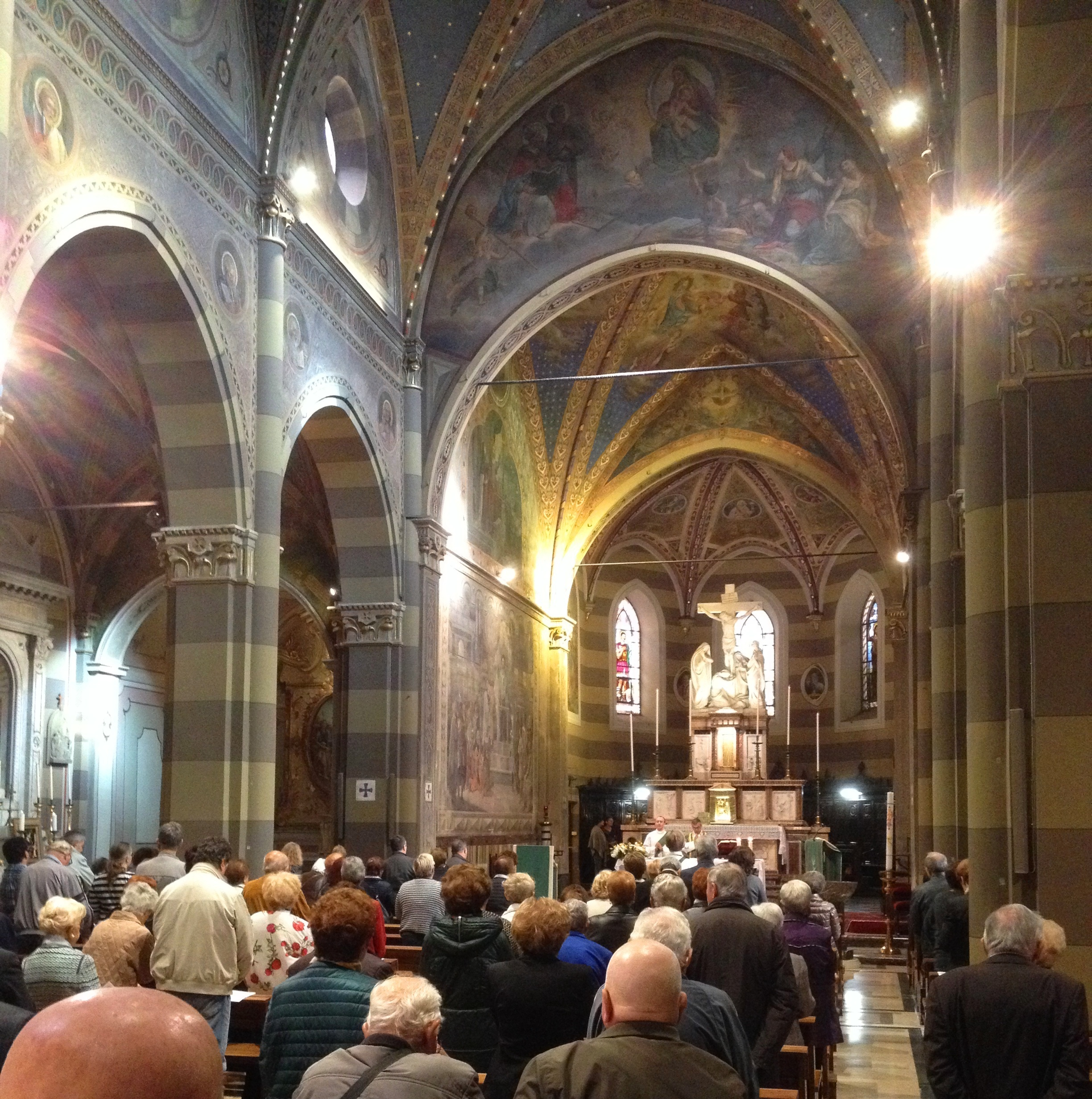 Ventimiglia, Chiesa di Sant'Agostino, end of the Holy Mass